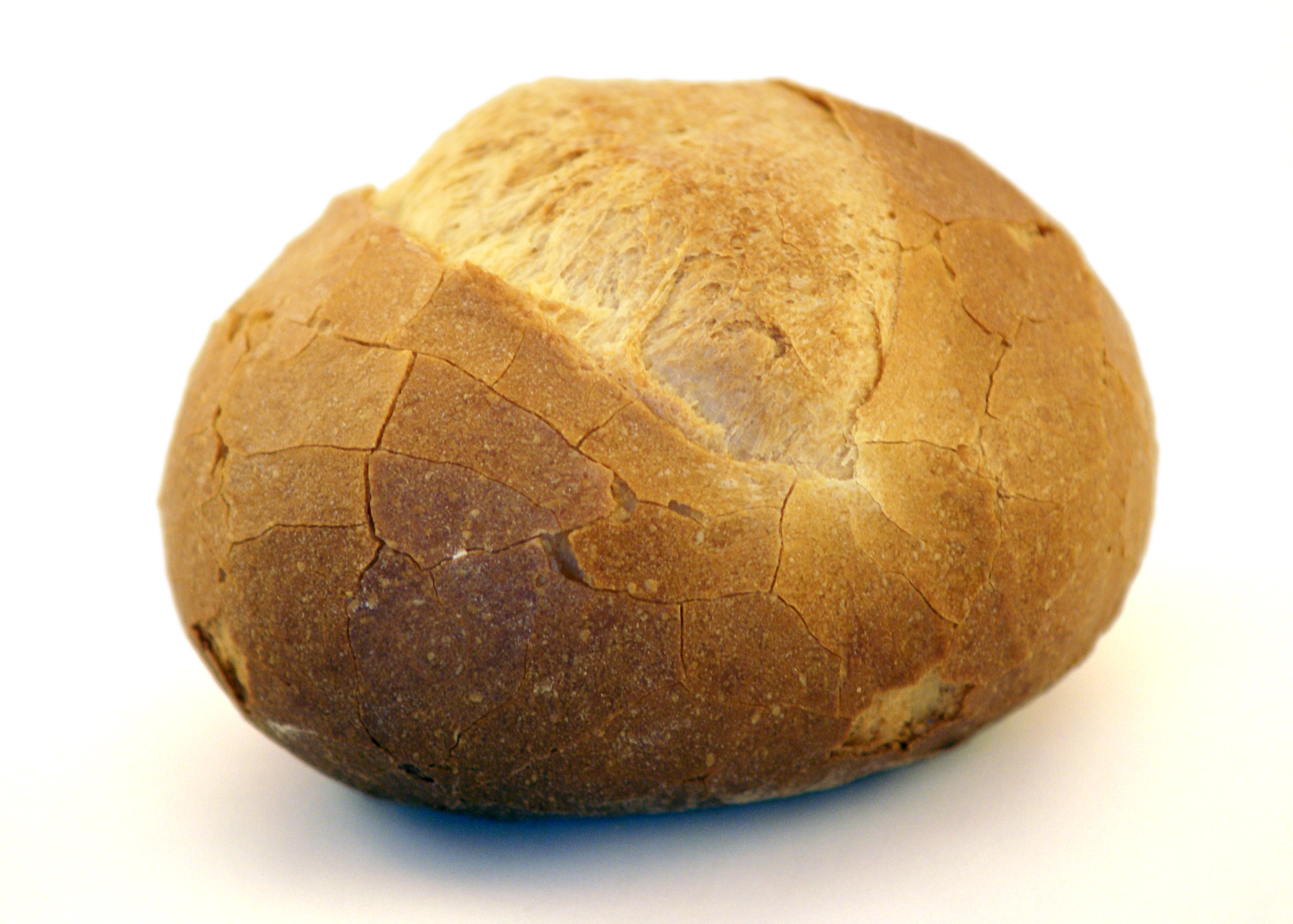 Mütschli, a type of breadroll traditionally made in Switzerland.